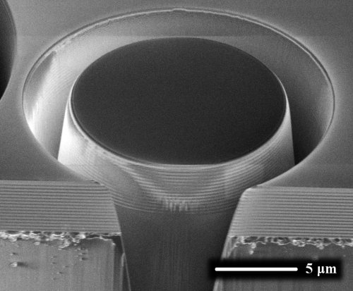 A scanning electron microscopy image of a tiny dielectric mirror being cut from a larger piece of material. The alternating layers of Ta2O5 and SiO2 which form the mirror are clearly visible. The finished mirror will be attached to a tiny mechanical resonator as part of an experiment on micro-optomechanical systems.